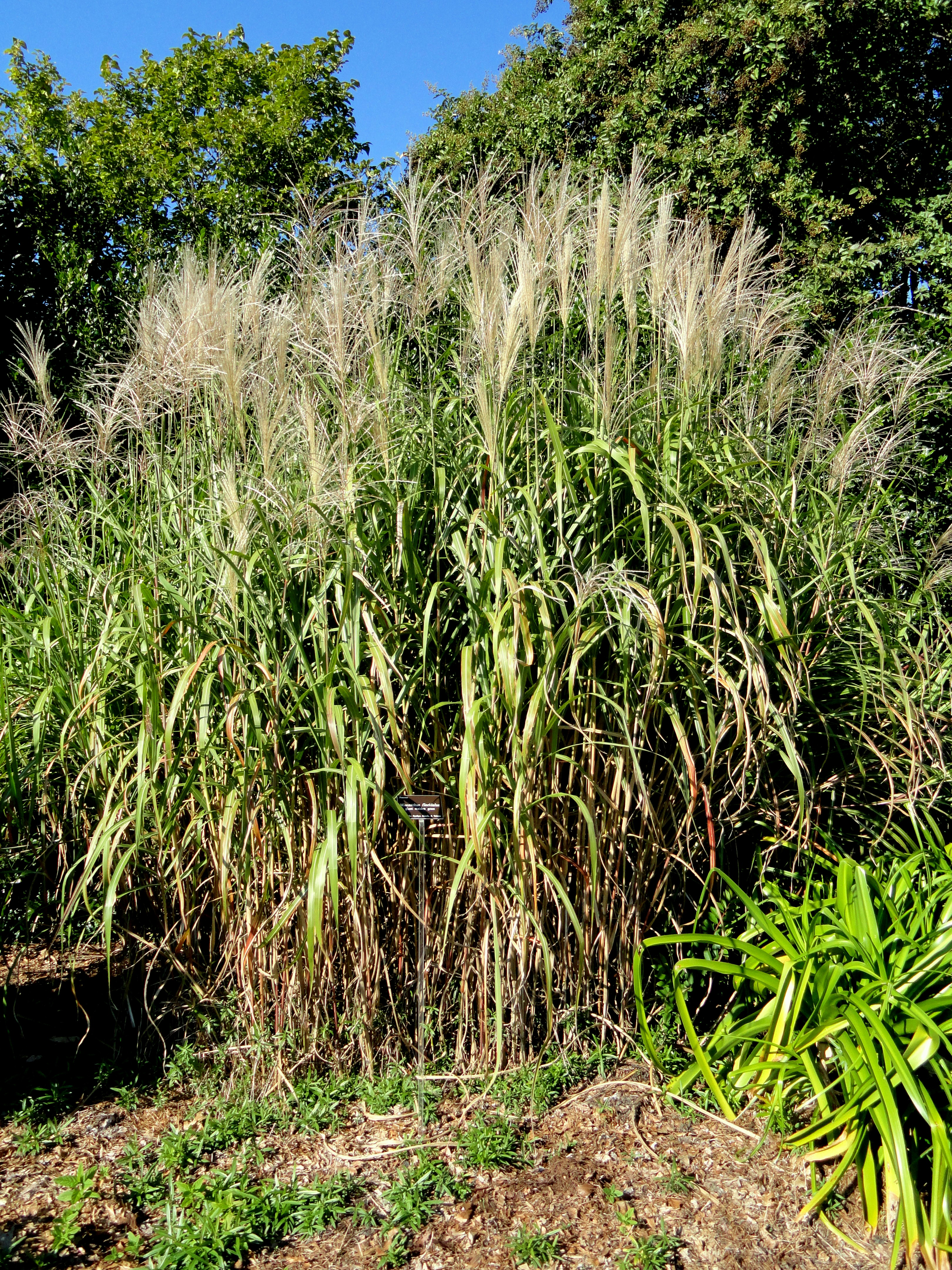 Miscanthus floridulus specimen in the J. C. Raulston Arboretum (North Carolina State University), 4415 Beryl Road, Raleigh, North Carolina, USA.